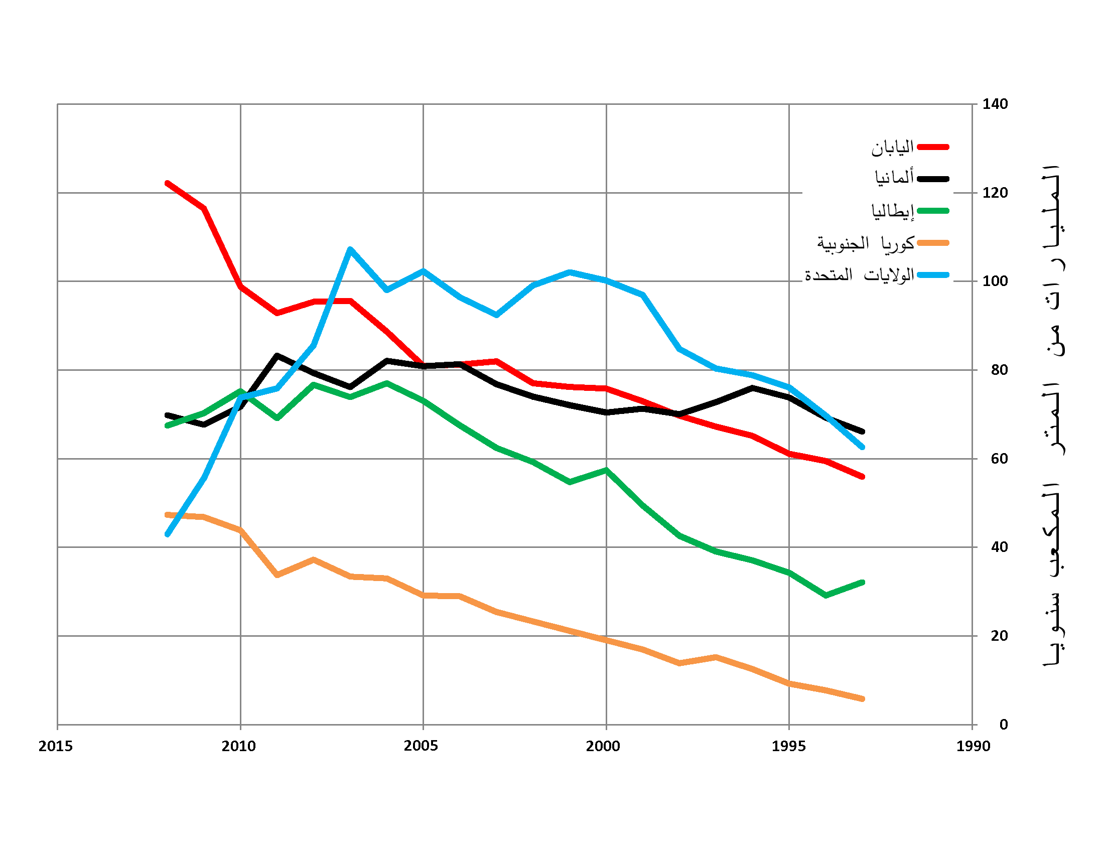 Trends in the five nations with the largest annual net imports of natural gas